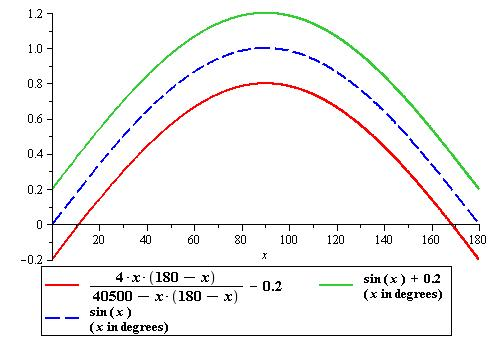 Graphs of the following functions: sin(x)+0.2 sin(x) 4*x*(180-x)/(40500-x*(180-x))